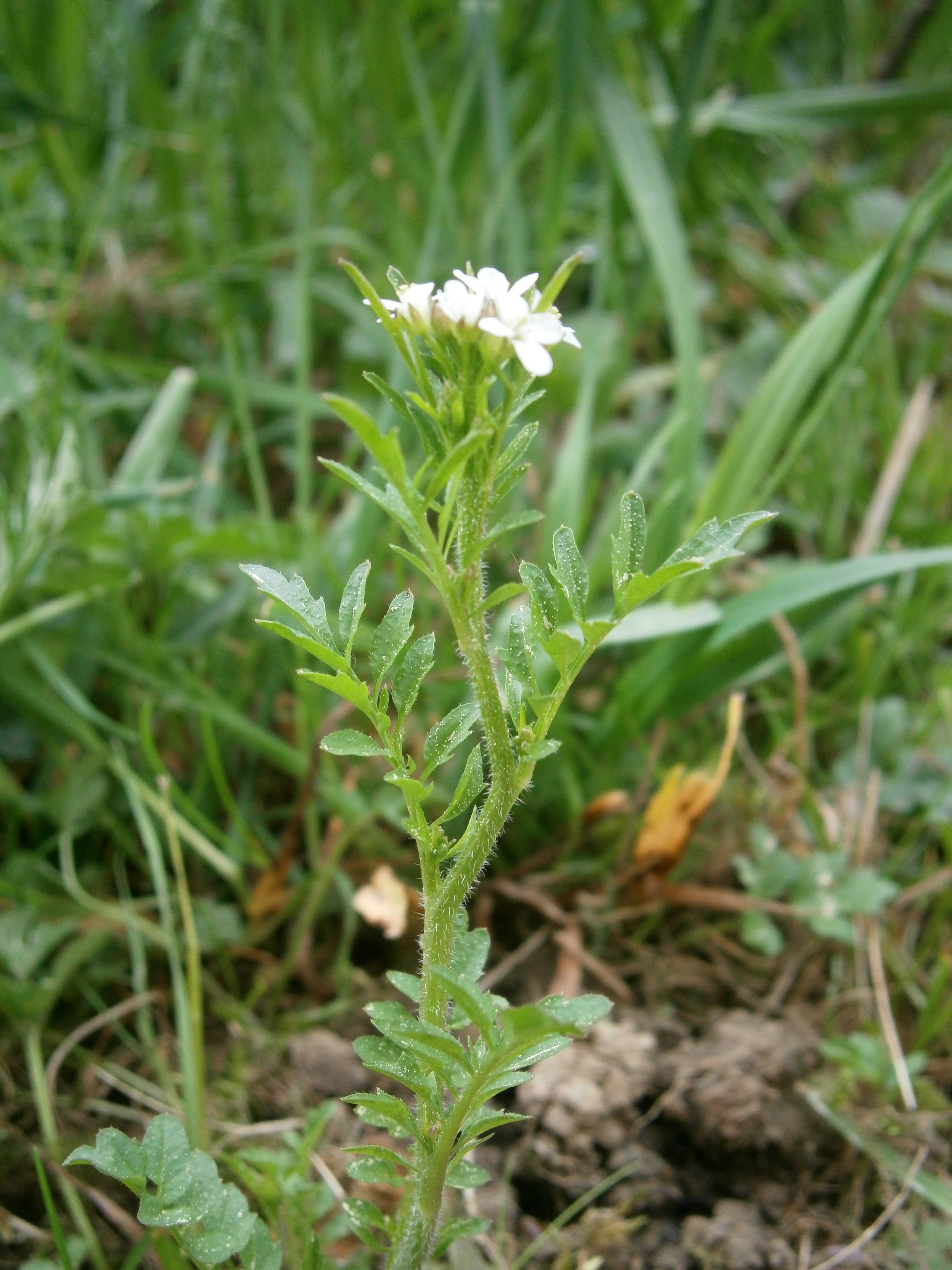 Cardamine flexuosa